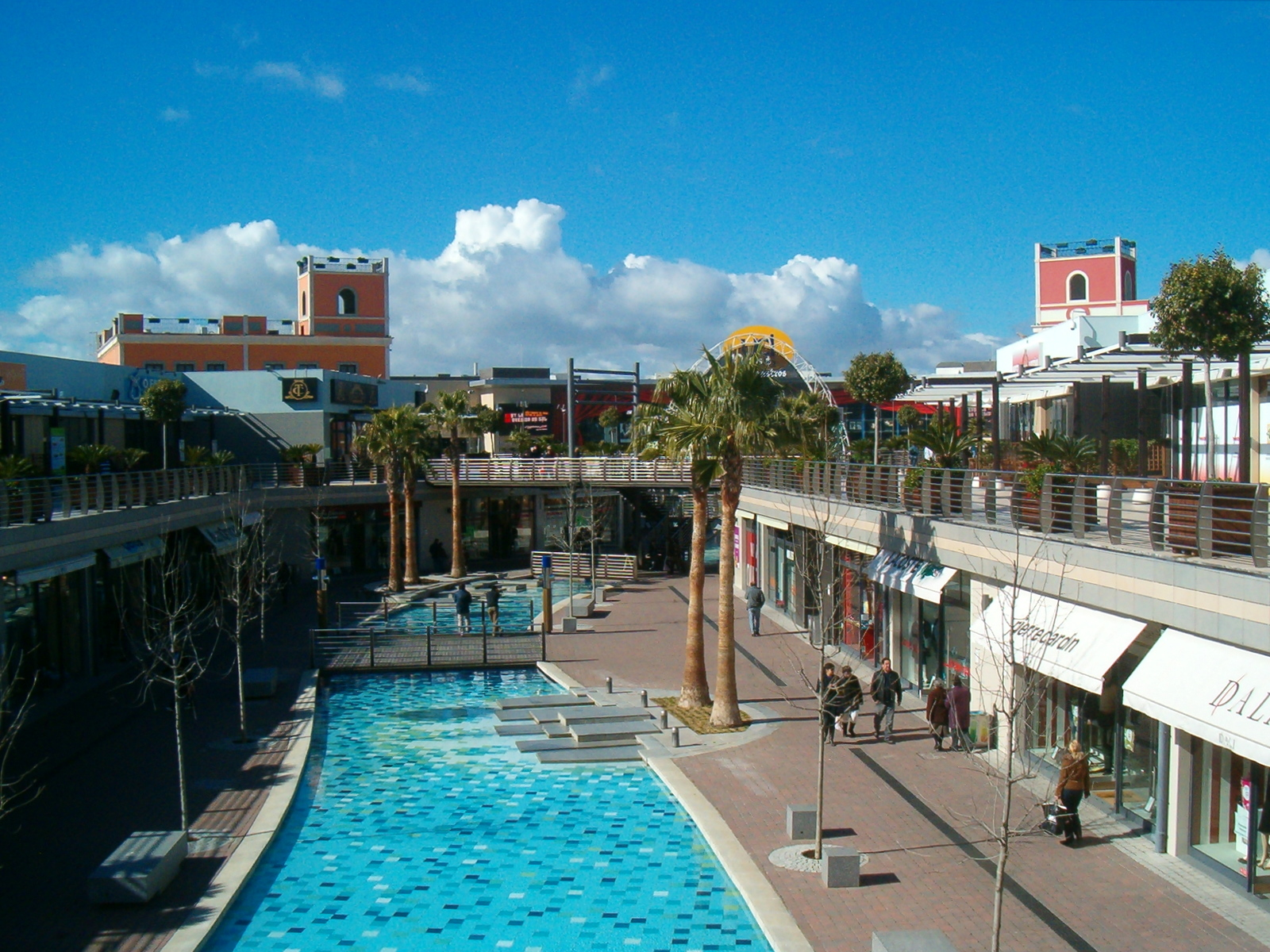 Freeport in Alcochete